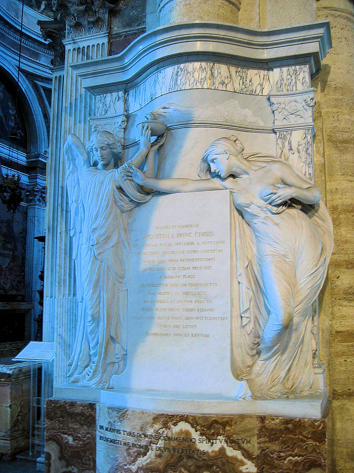 Santa Maria del Popolo in Rome, Italy: Chigi chapel. Adolfo Apolloni - Monument to Agostino Chigi (1915). Picture by Torvindus.